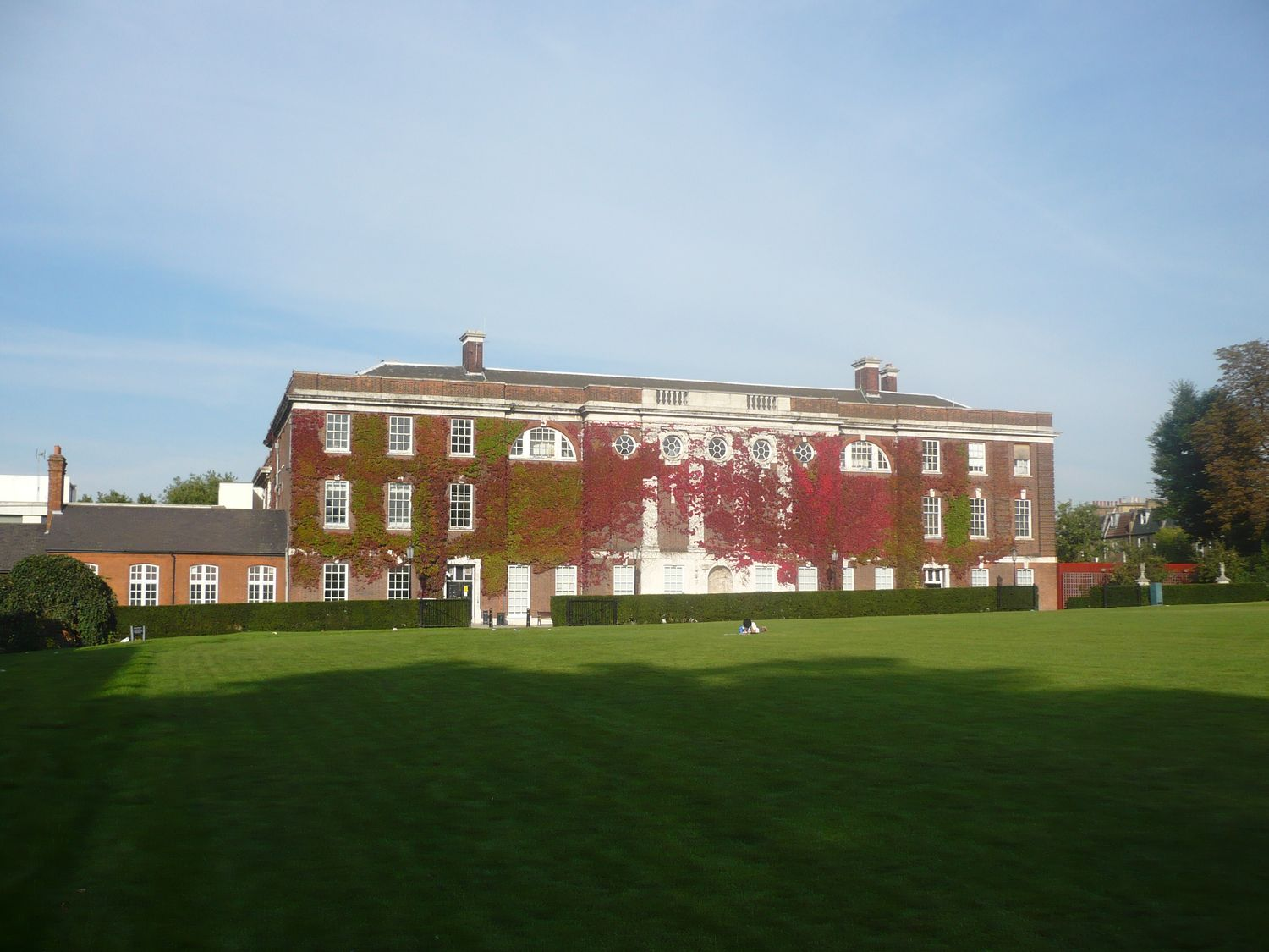 Goldsmiths College main building